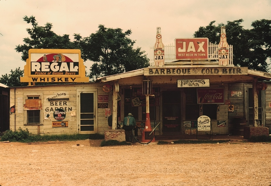 Summary: Photograph shows Sign on left building: Frenchies Beer Garden; above porch: Frenchies Bar.